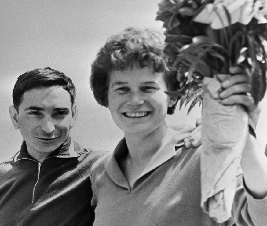 “Valery Bykovsky and Valentina Tereshkova”. Valery Bykovsky (left) and Valentina Tereshkova (right).